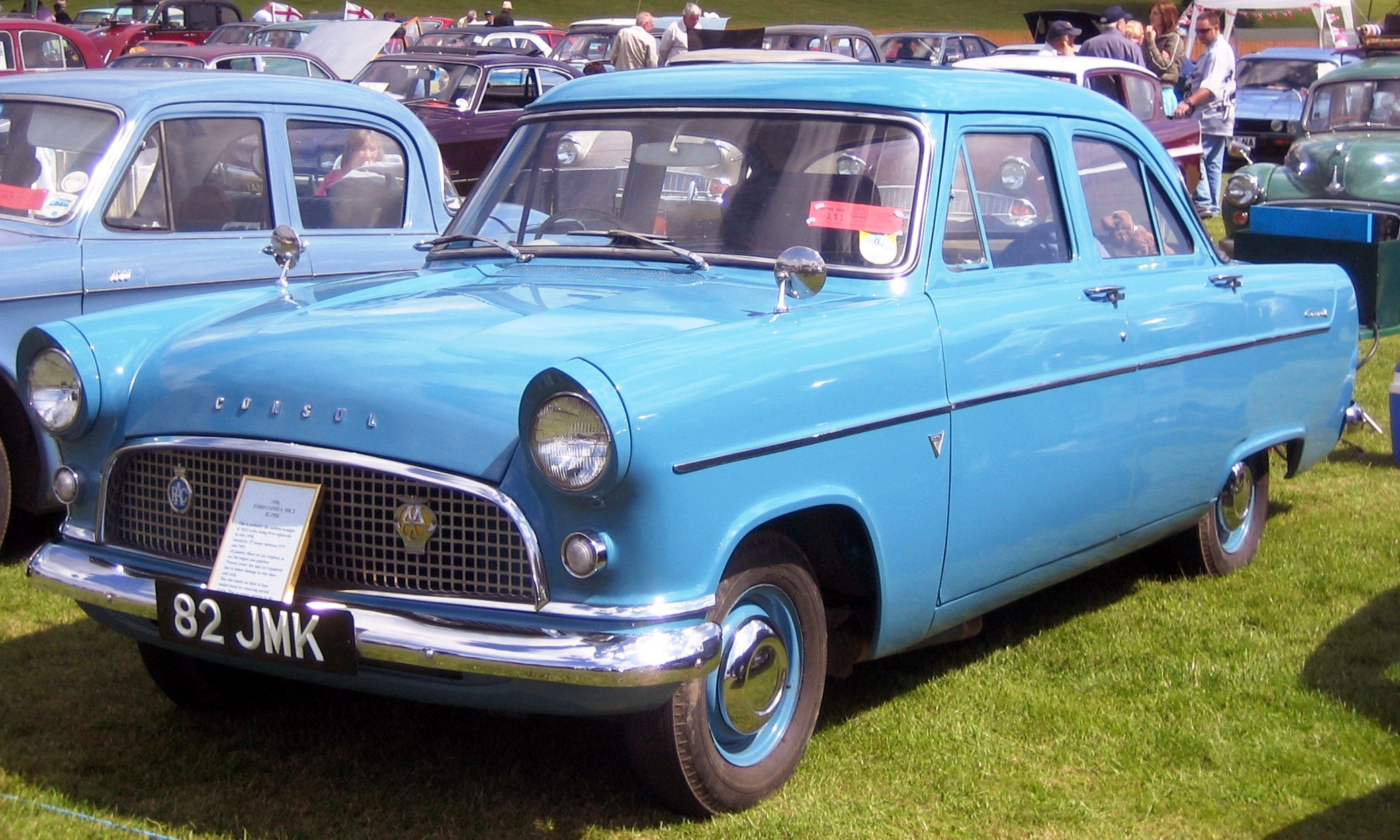 Ford Consul II. The notice on the front of the car indicates that this may have been the fist Consul of this shape to be produced. The picture was taken near Warley and Brentwood which were and are important administrative locations for the Ford motor Company